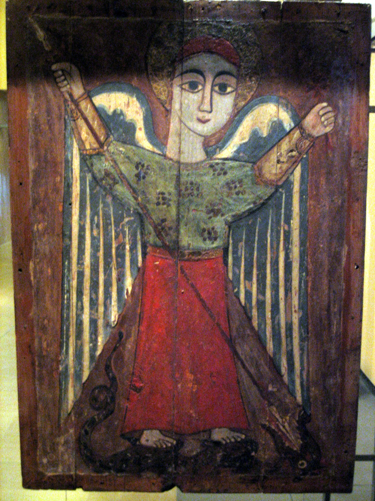 Coptic icon with an archangel (made in 17th century, serial number: BXM1803). Byzantine and Christian Museum in Athens.